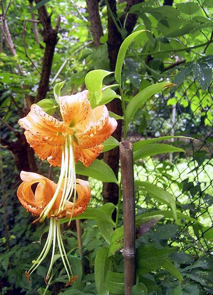 Lilium henryi Author Denis Barthel